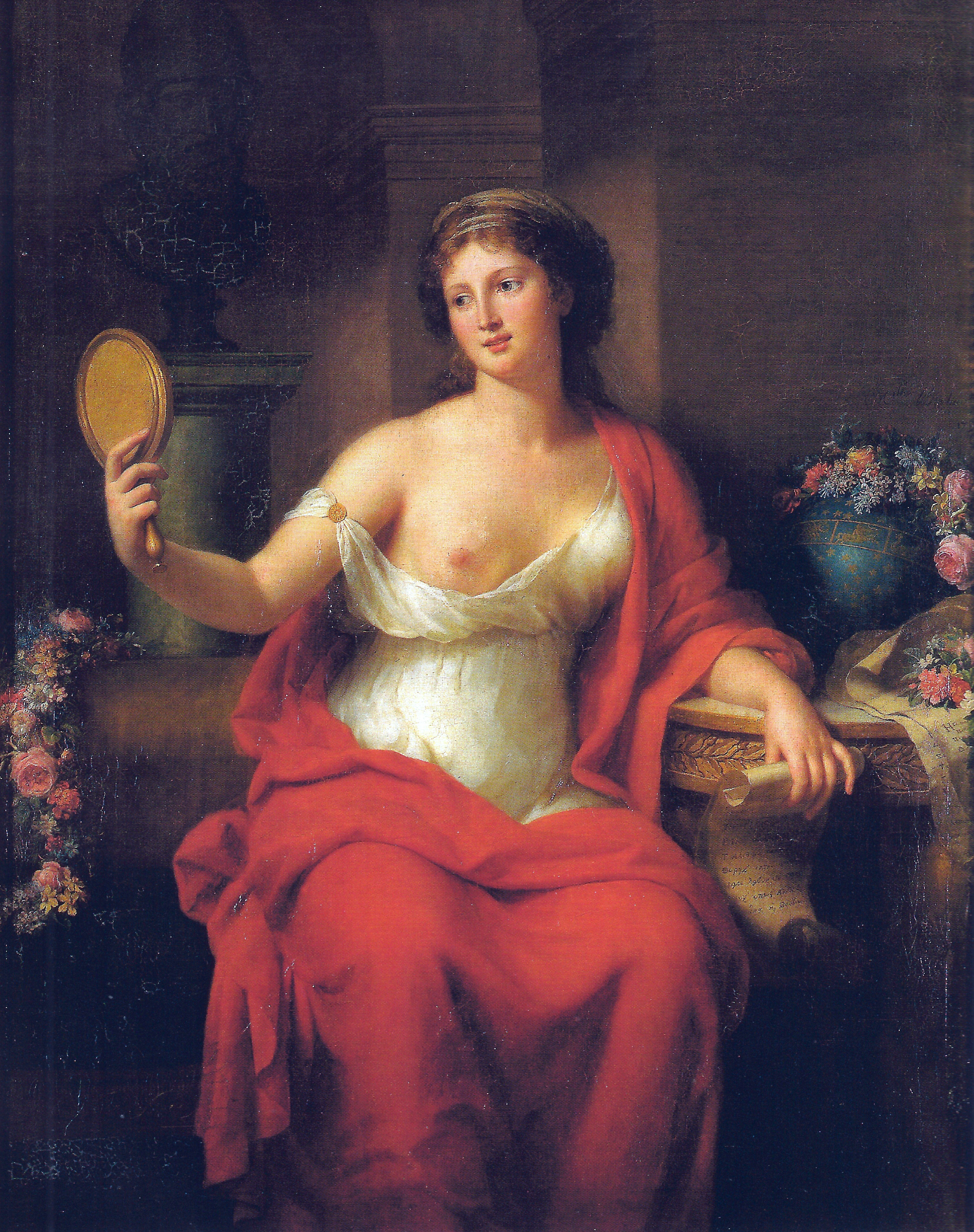 Self-portrait as Aspasia